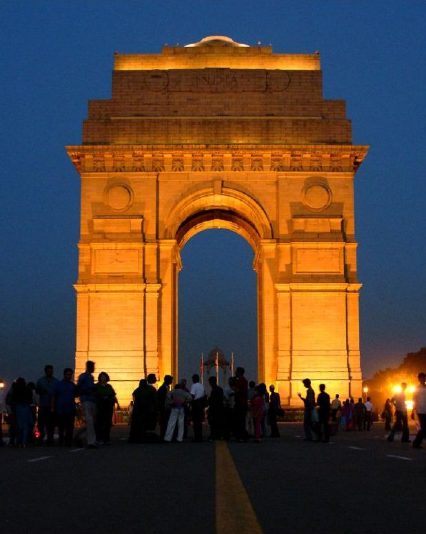 IndiaGate, New Delhi, India The monument was built in rememberance of all the soldiers who sacrfied there lifes in the world war, walls of India Gate has got the names and ranks of all the soldiers on it.